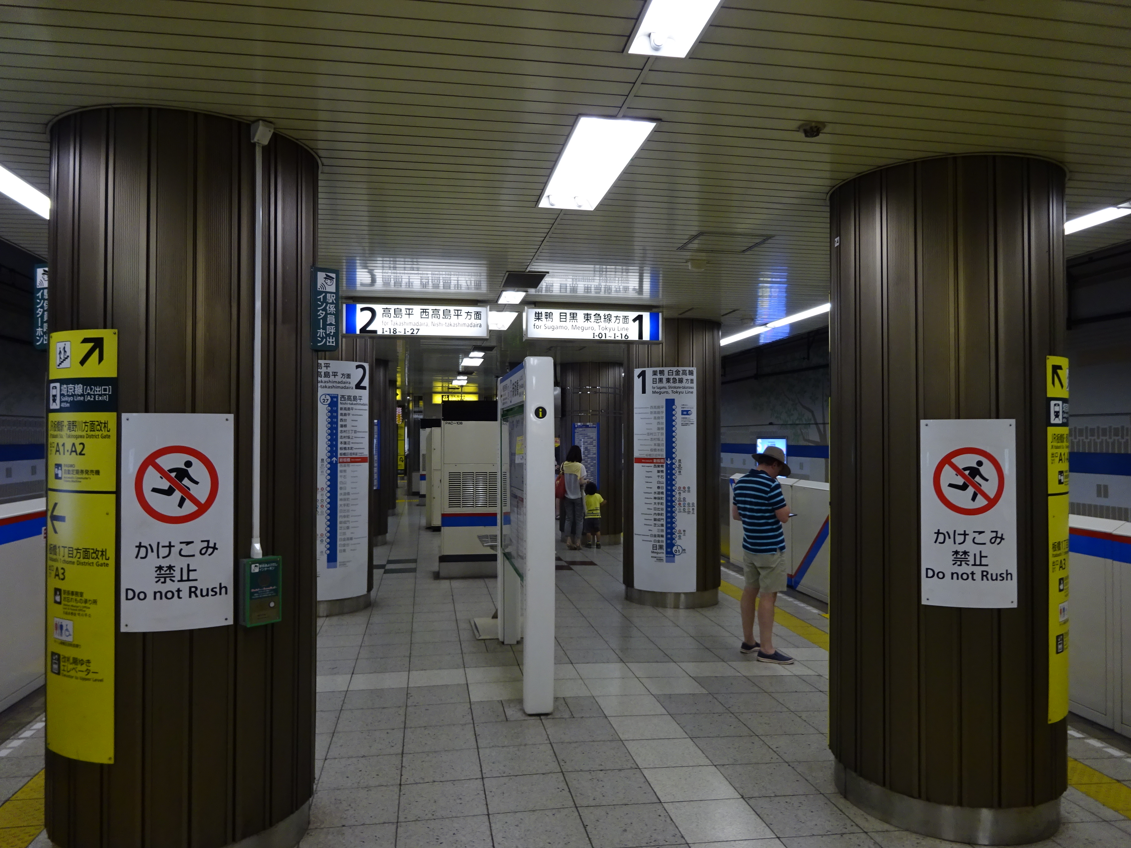 Platforms of Shin-Itabashi Station